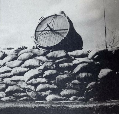 A searchlight of The Imperial Japanese Navy